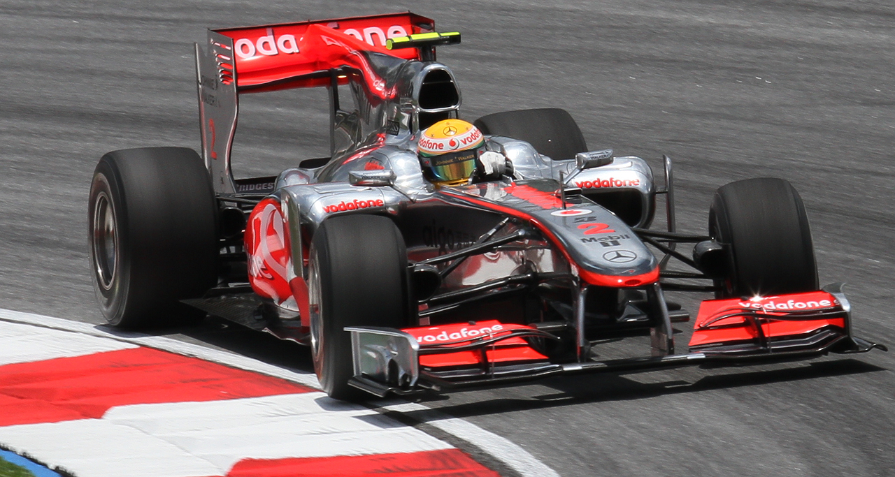 Formula One 2010 Rd.3 Malaysian GP: Lewis Hamilton (McLaren) during Saturday 3rd Free Practice session.